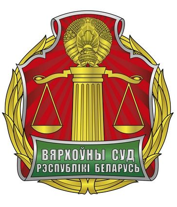 Emblem of the Supreme Court of Belarus